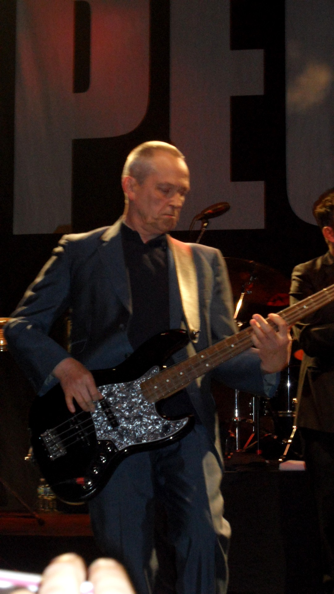 Horace Panter, aka "Sir Horace Gentleman", performing with The Specials at the Vic Theatre in Chicago, IL March 11, 2013